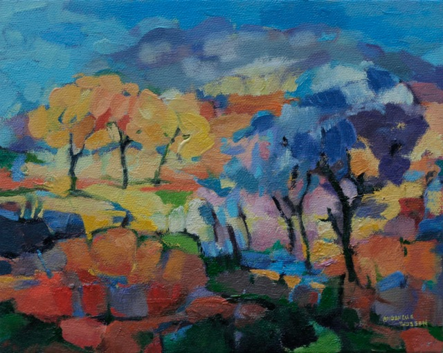 Angenelle Thijssen: San Jaume de Llierca, Lyric expressionism